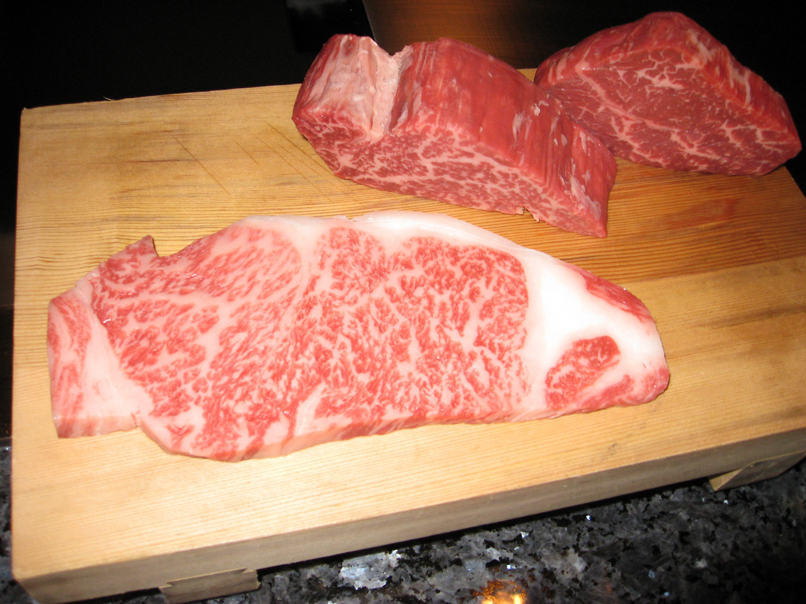 Kobe Beef , 最前面這塊要日幣9000...... Photographer says that a chunk of Kobe beef in the foreground costs JPY 9,000. Location: Kobe Cuisine: Kobe